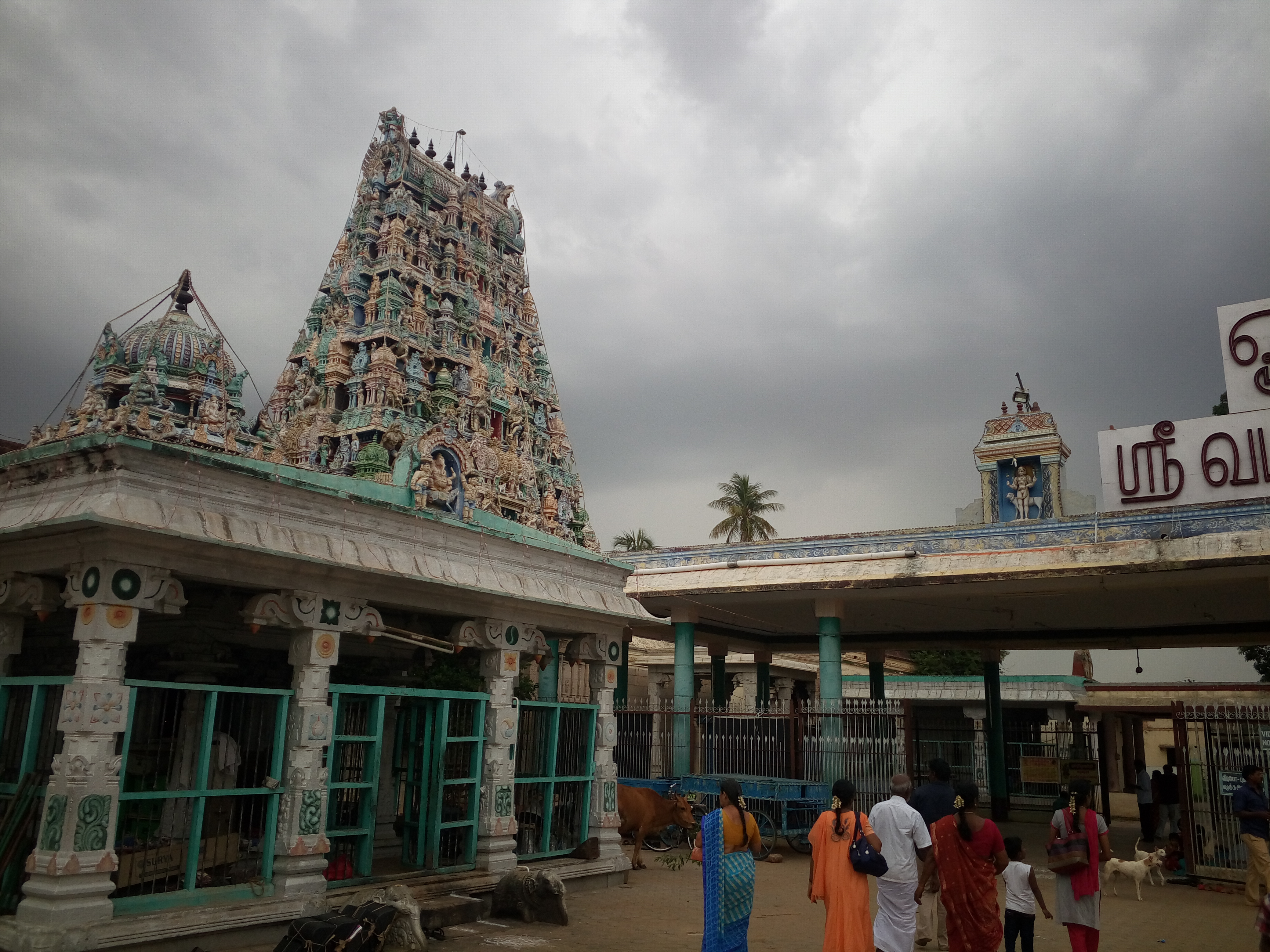 Bairavar temple